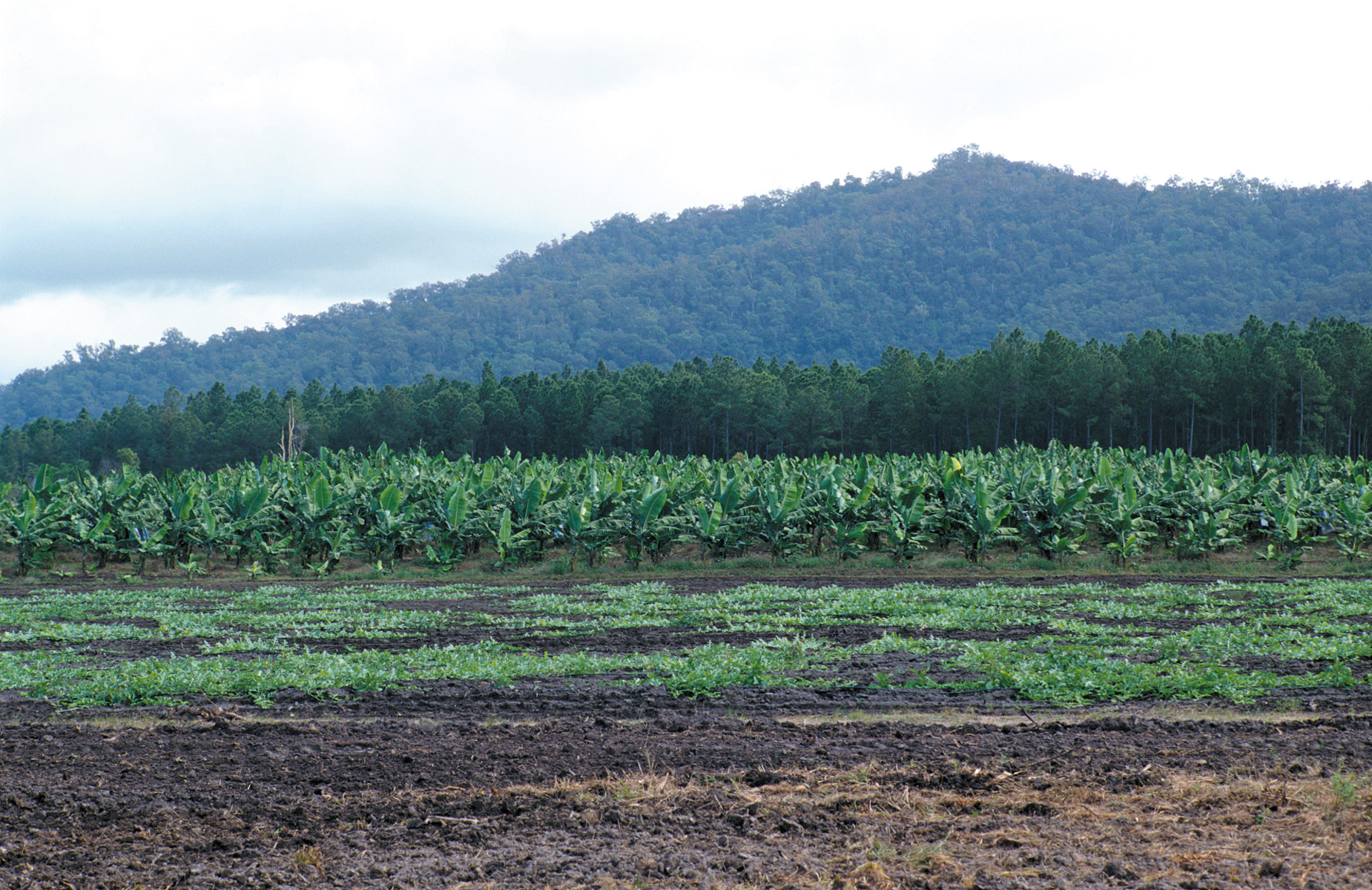 Rural scene in far north Queensland - Melon crop in foreground, banana plantation behind, with pine forest and rainforest in the background, 15 Kms north of Cardwell. QLD.